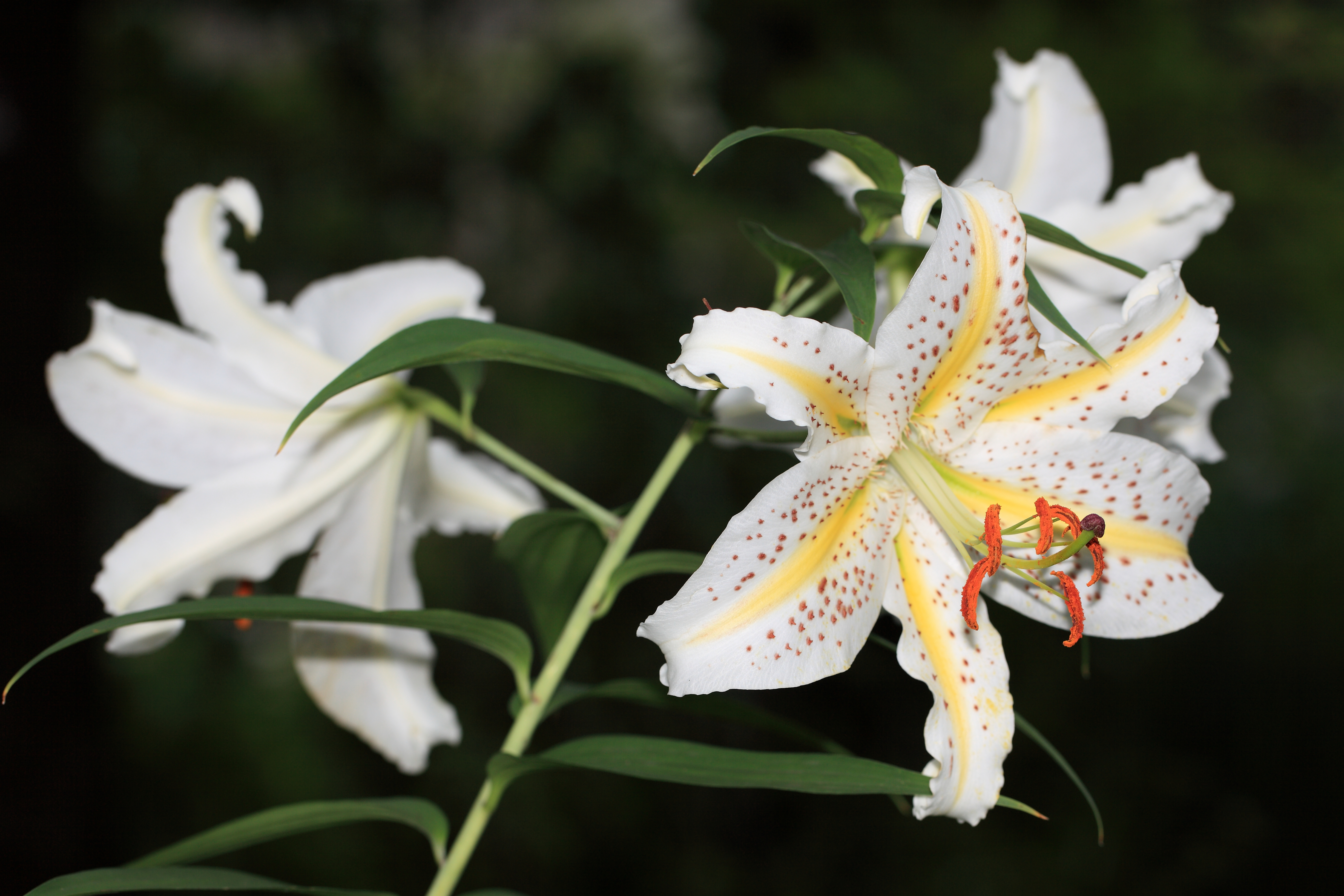 Kawaguchi Green Center (garden), Kawaguchi-shi(city) Saitama-ken(Prefecture), Japan 埼玉県川口市(さいたまけん かわぐちし) 川口グリーンセンター